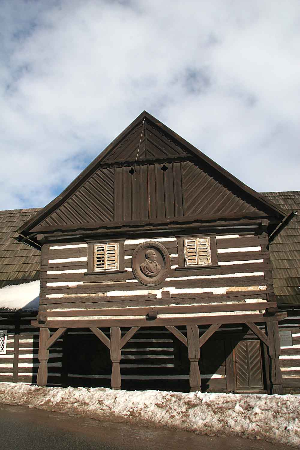 Birthhouse of Václav Hanka in Hořiněves, Czech Republic.